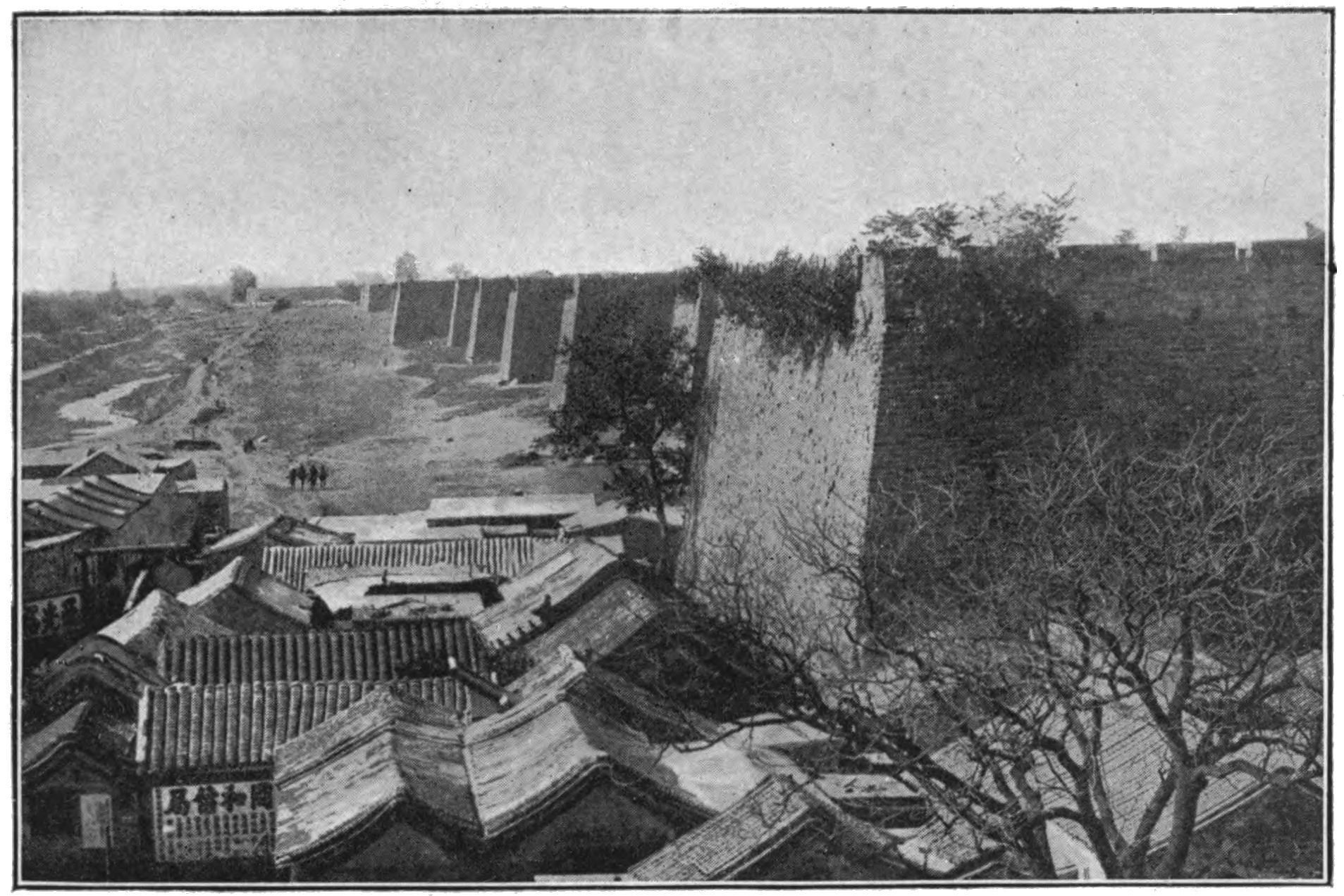 "Tartar Wall, Peking." Facing page 230 of book.